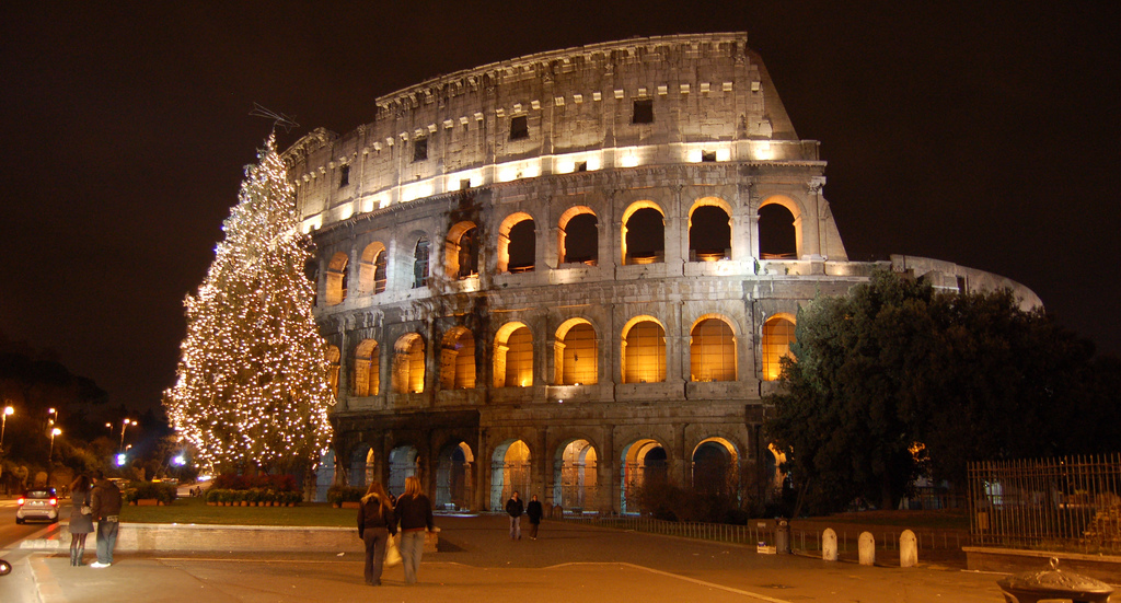 The Colosseum during Christmas 2006.